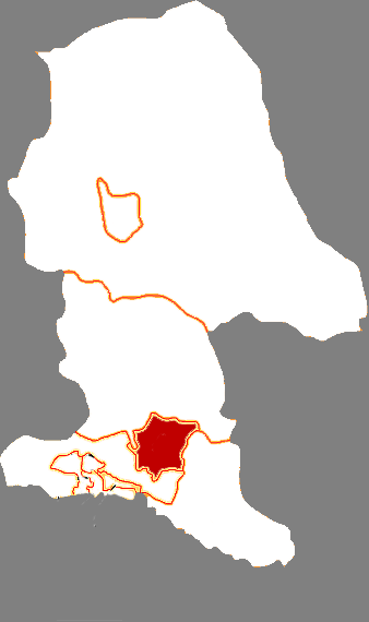 Locator map of Shiguai Districtin Baotou City, Inner Mongolia, China